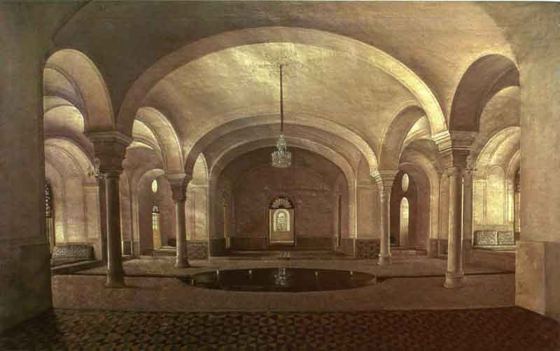 Sahebgheraniye Palace interior — the Shabestan. Example of Qajar dynasty architecture. At the royal Niavaran Palace complex of Tehran. Hozkhane.